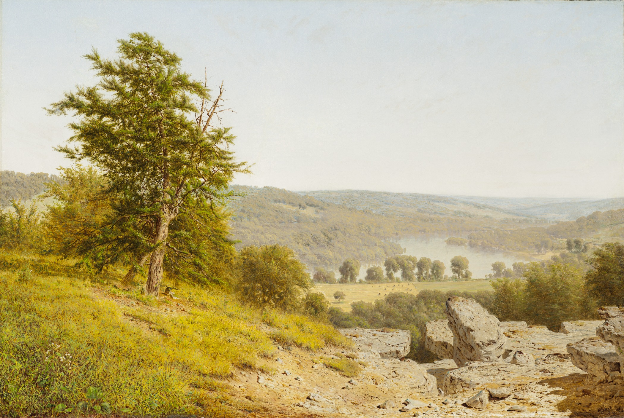 United States, 1865 Paintings Oil on canvas Gift of Joseph T. Mendelson (M.66.66.2) American Art Currently on public view: Art of the Americas Building, floor 3